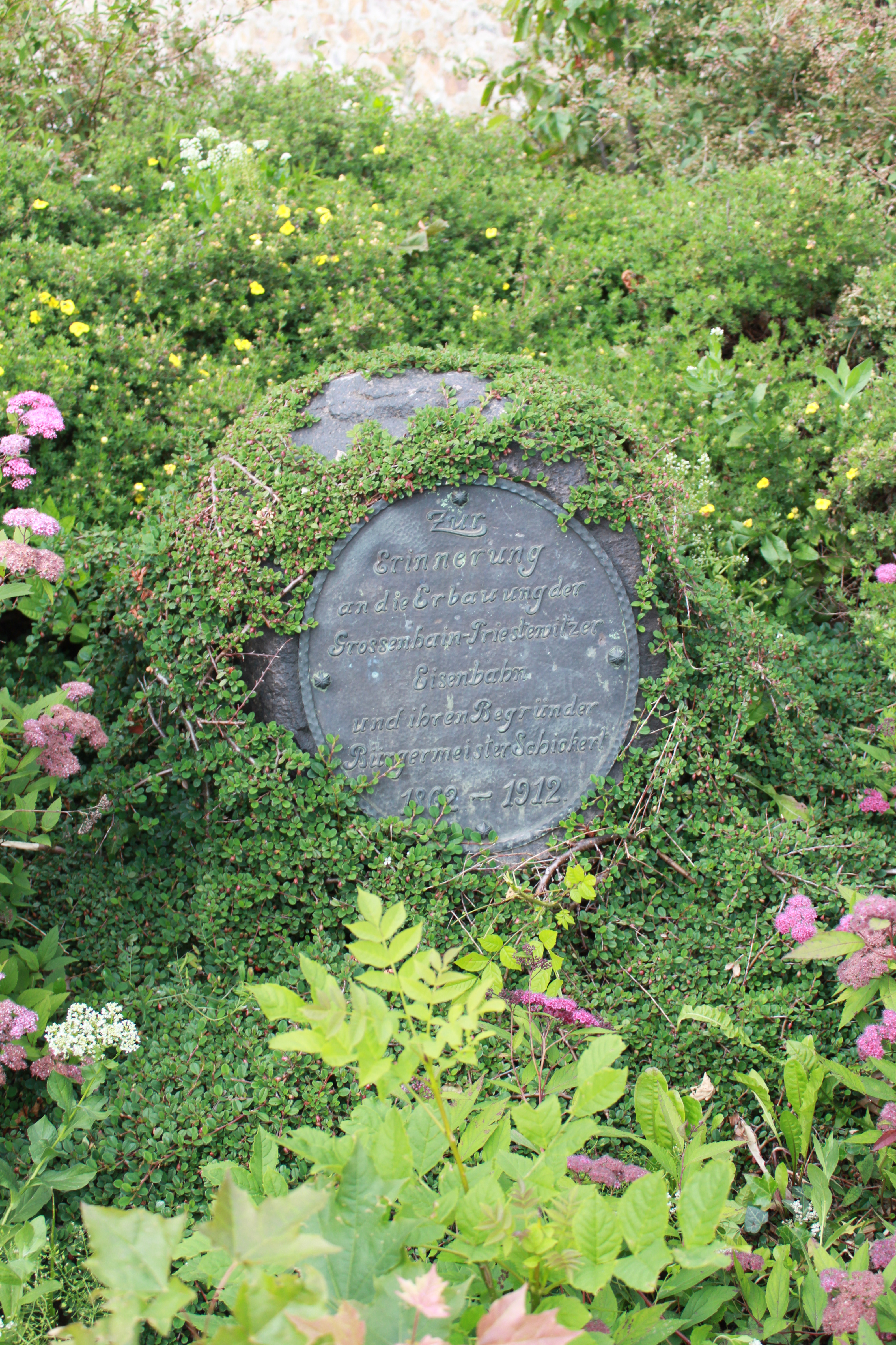 Menmorial for the major Schickerl